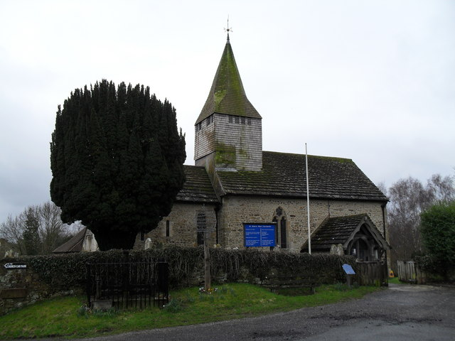 St Mary's, West Chiltington on a wet and windy March morning